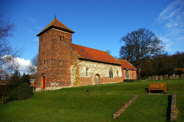 Bonby Church. Church of St. Andrew, Bonby, North Lincolnshire. Caught when the sun was shining!